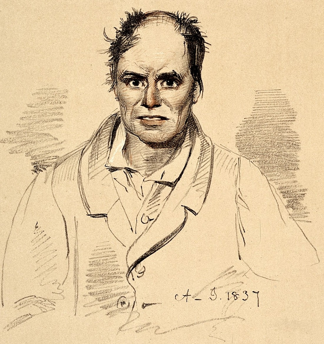 A man diagnosed as suffering from melancholia with strong suicidal tendency. Lithograph, 1892, after a drawing by Alexander Johnston, 1837, for Sir Alexander Morison. Iconographic Collections Keywords: 1837; johnston, alexander; MELANCHOLIA; wildcat 38639; Depression; Psychiatry; Depressive Disorder; T. C.; Bethlem Royal Hospital (London); Alexander Johnston; Alexander Morison; Byrom Bramwell